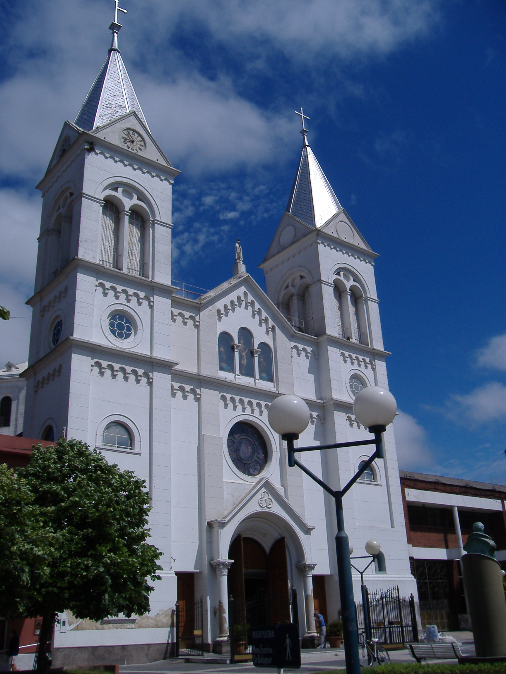 The Cathedral of Saint Anthony of Padua in Concordia, Entre Ríos, Argentina.